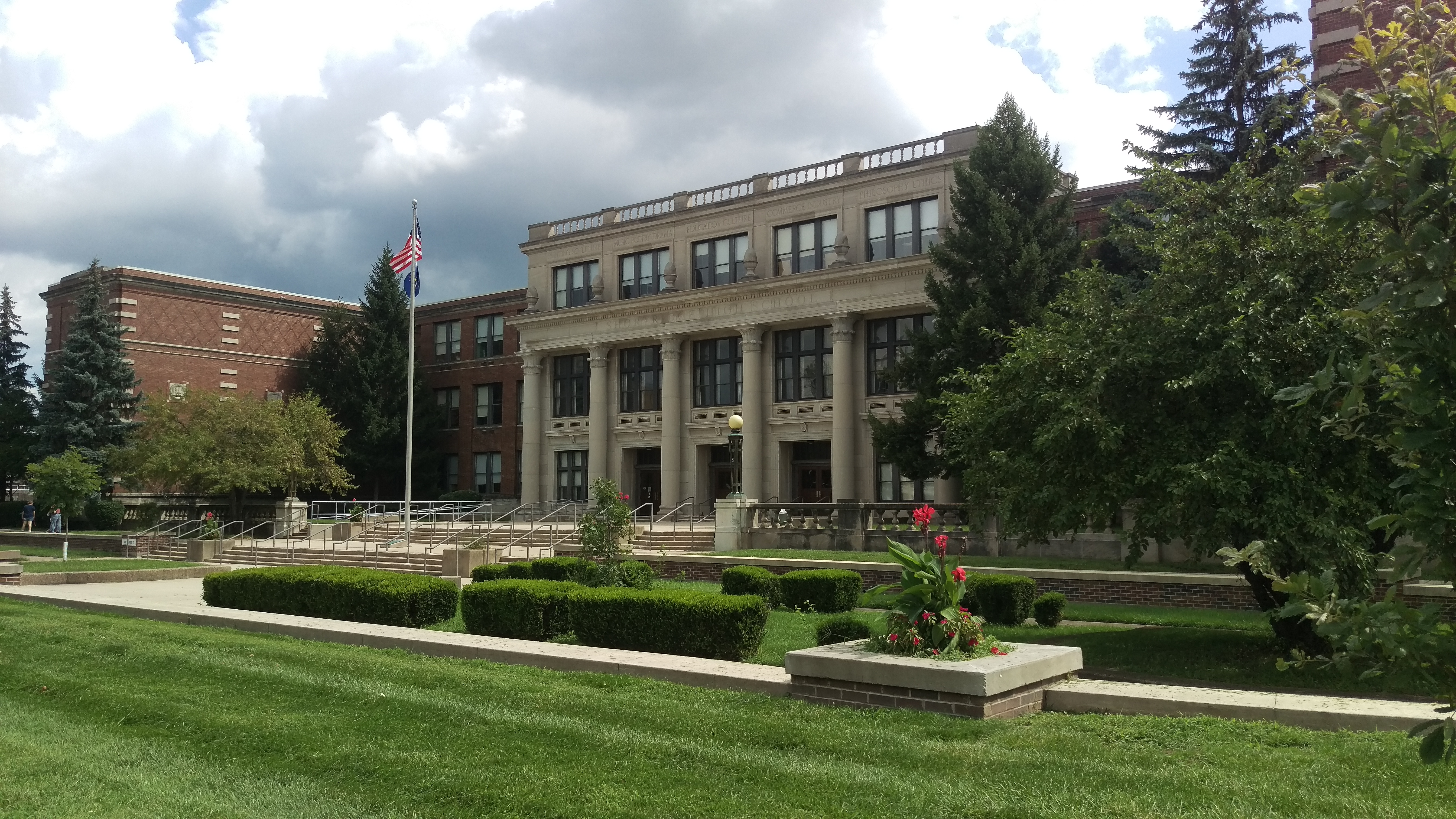 Picture of the front of Shortridge High School, Indianapolis. August 2016. Taken by G.B. Landrigan.